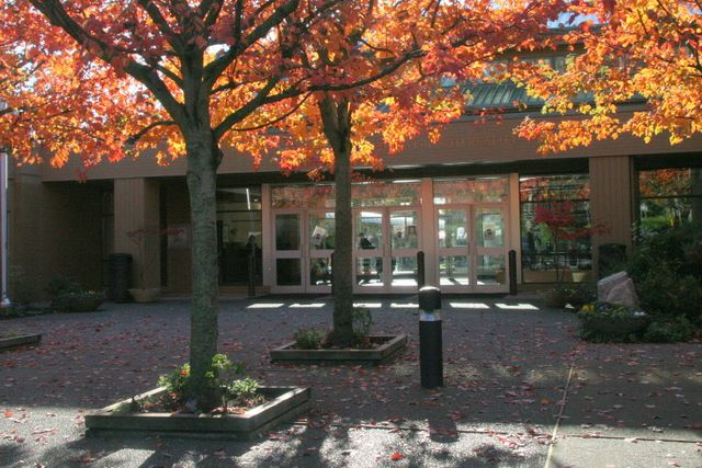 Collingwood Morven Campus